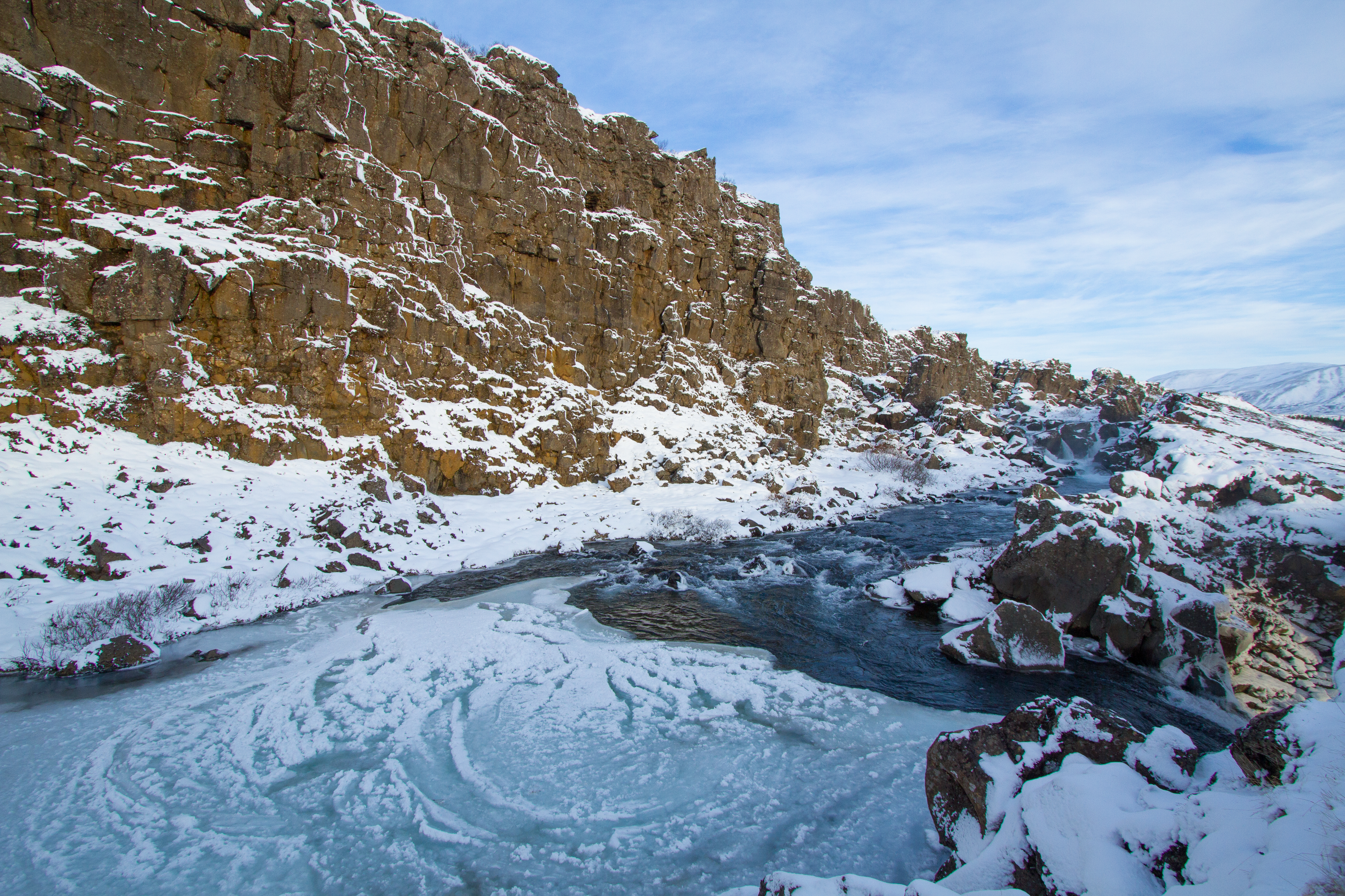 Drekkingarhylur, the drowning pool in Þingvellir, Iceland